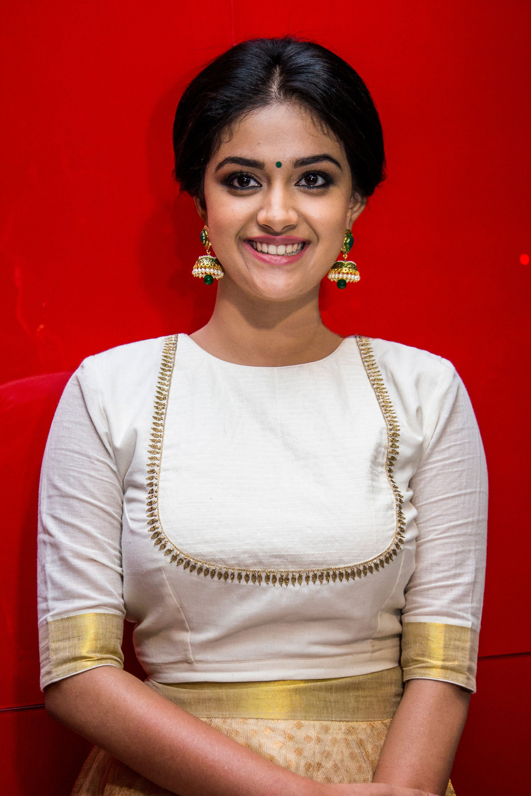 Keerthy Suresh at Thodari Audio Launch